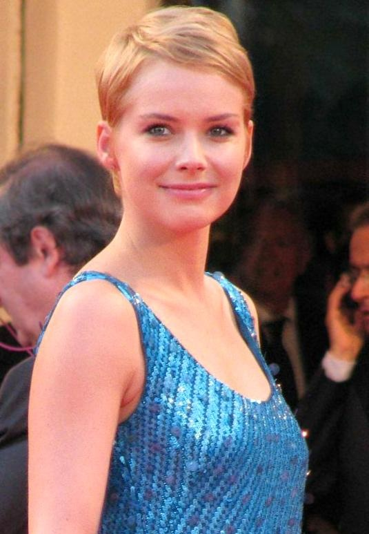 Hungarian actress Andrea Osvárt at 2008 Venice Film Festival